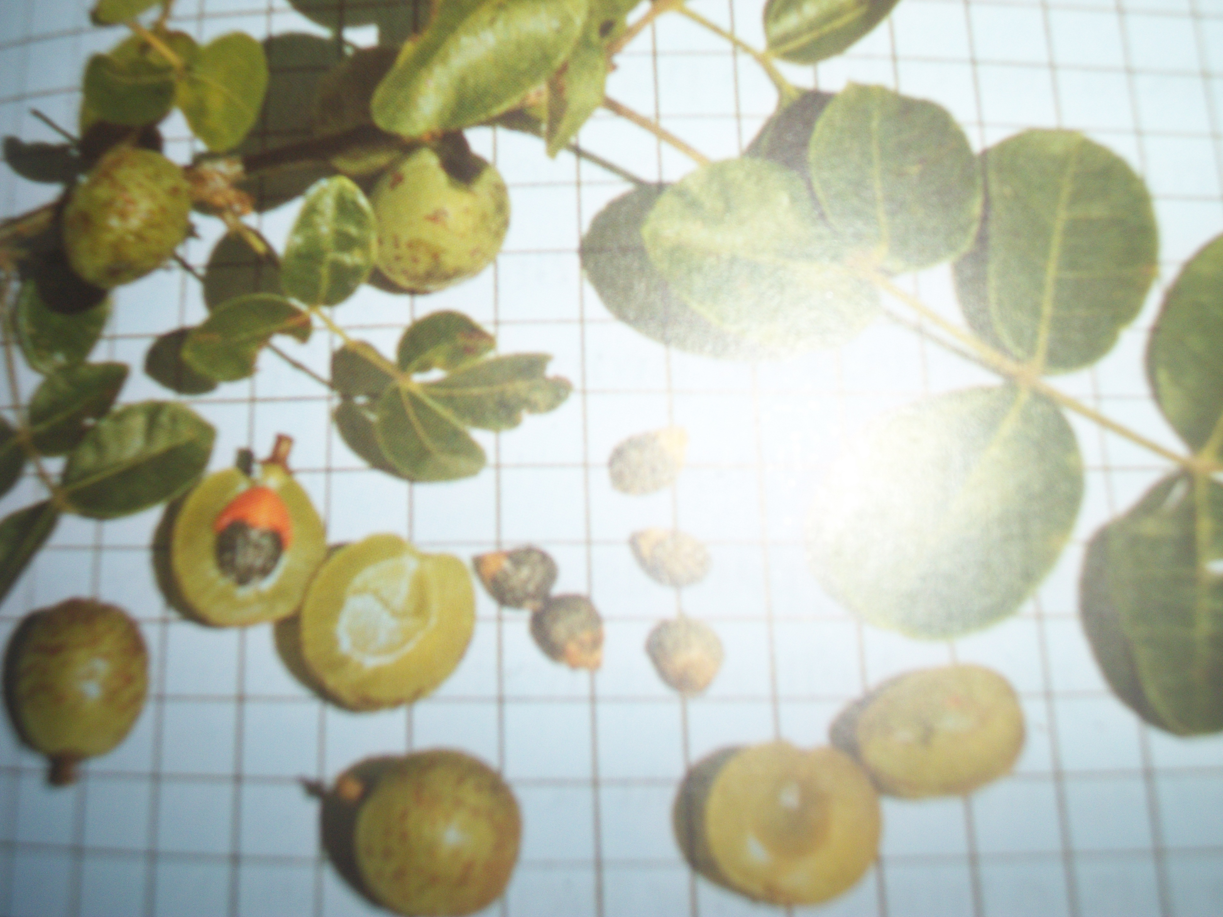 Fruits of imburana